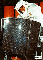 Early Bird, Bild von NASA